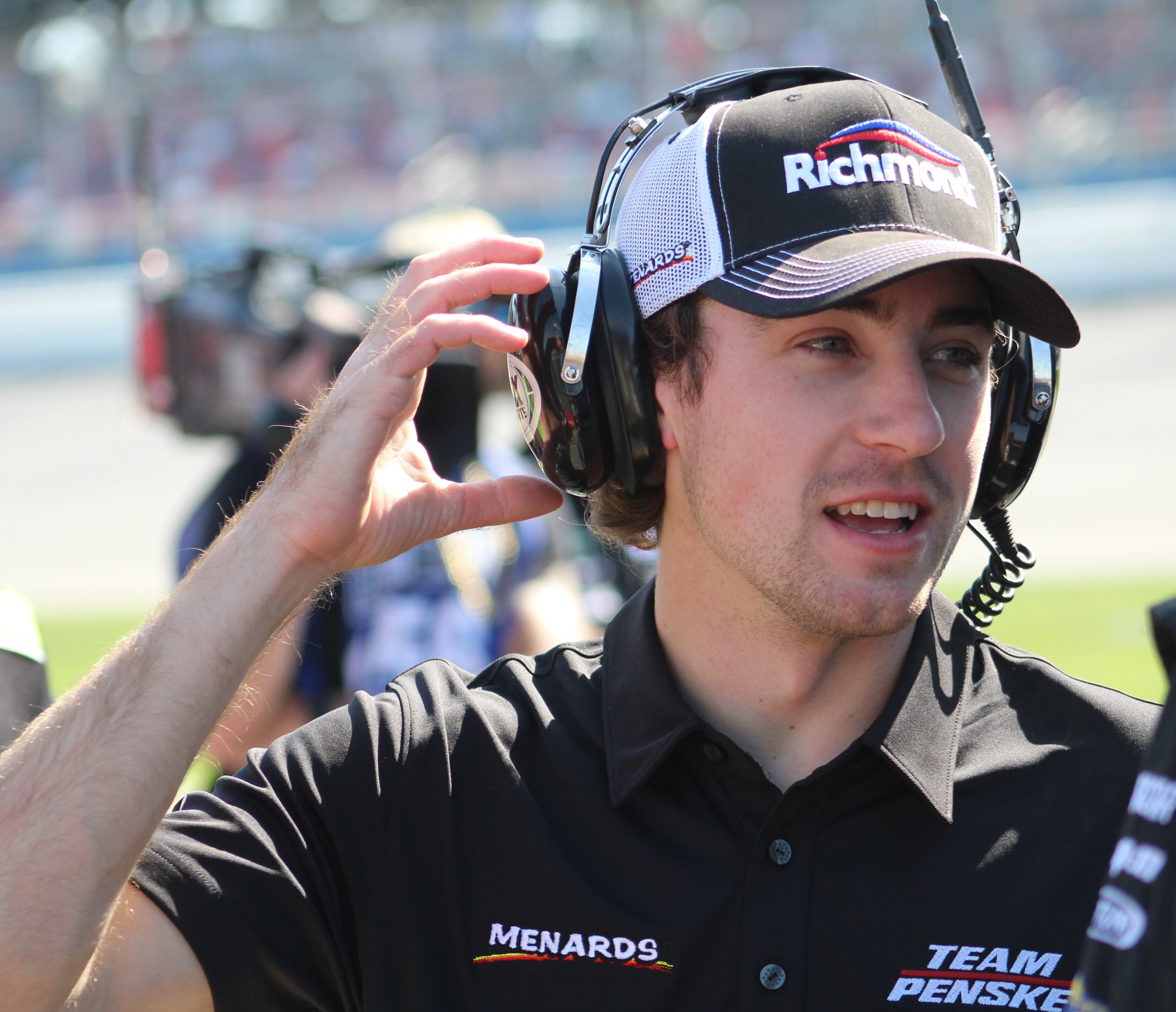 Ryan Blaney at Talladega Superspeedway in 2018. Blaney was part of the Fox Sports Drivers Only broadcast of the Sparks Energy 300 where Cup Series drivers call the race instead of the main announcers and pit reporters.